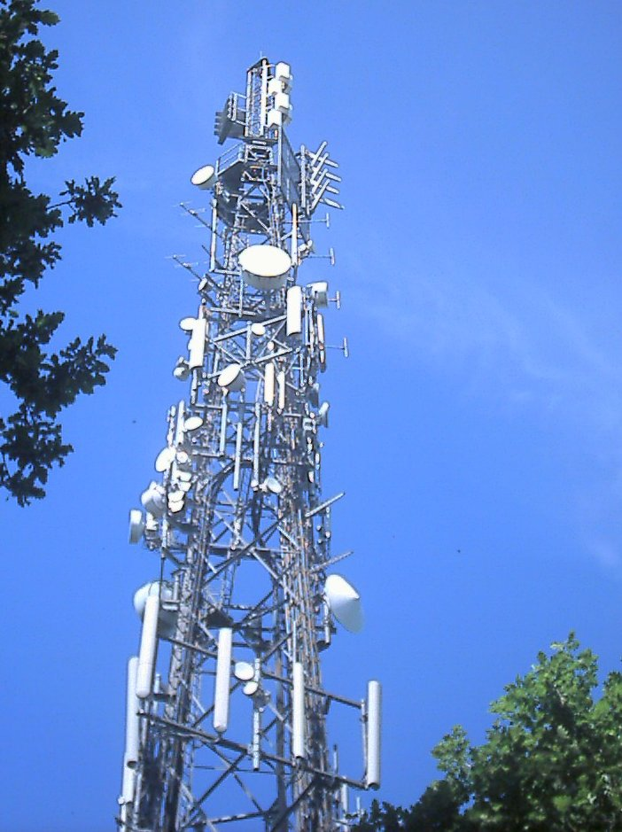 Storeton TV and Radio transmitting mast at Storeton Hill, Higher Bebington, Wirral, UK. Storeton is primarily a member of the Winter Hill TV transmitter group, but from November 2009 onwards, it will also be a relay of Moel-y-Parc. Independent local radio is also transmitted from the site.